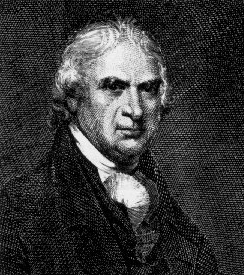 George Clinton, former Vice President of the United States.